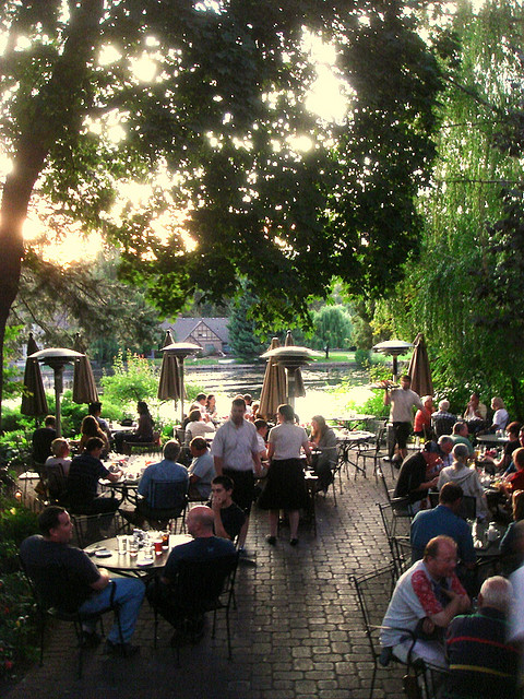 Garden dining area at the Pine Tavern in Bend, Oregon; overlooking the Deschutes River